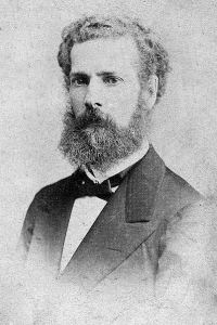 José María Samper Agudelo